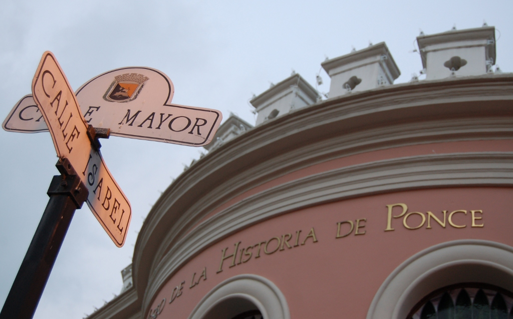 Museum of the History of Ponce - at Mayor and Isabel Streets in Ponce, southern Puerto Rico.